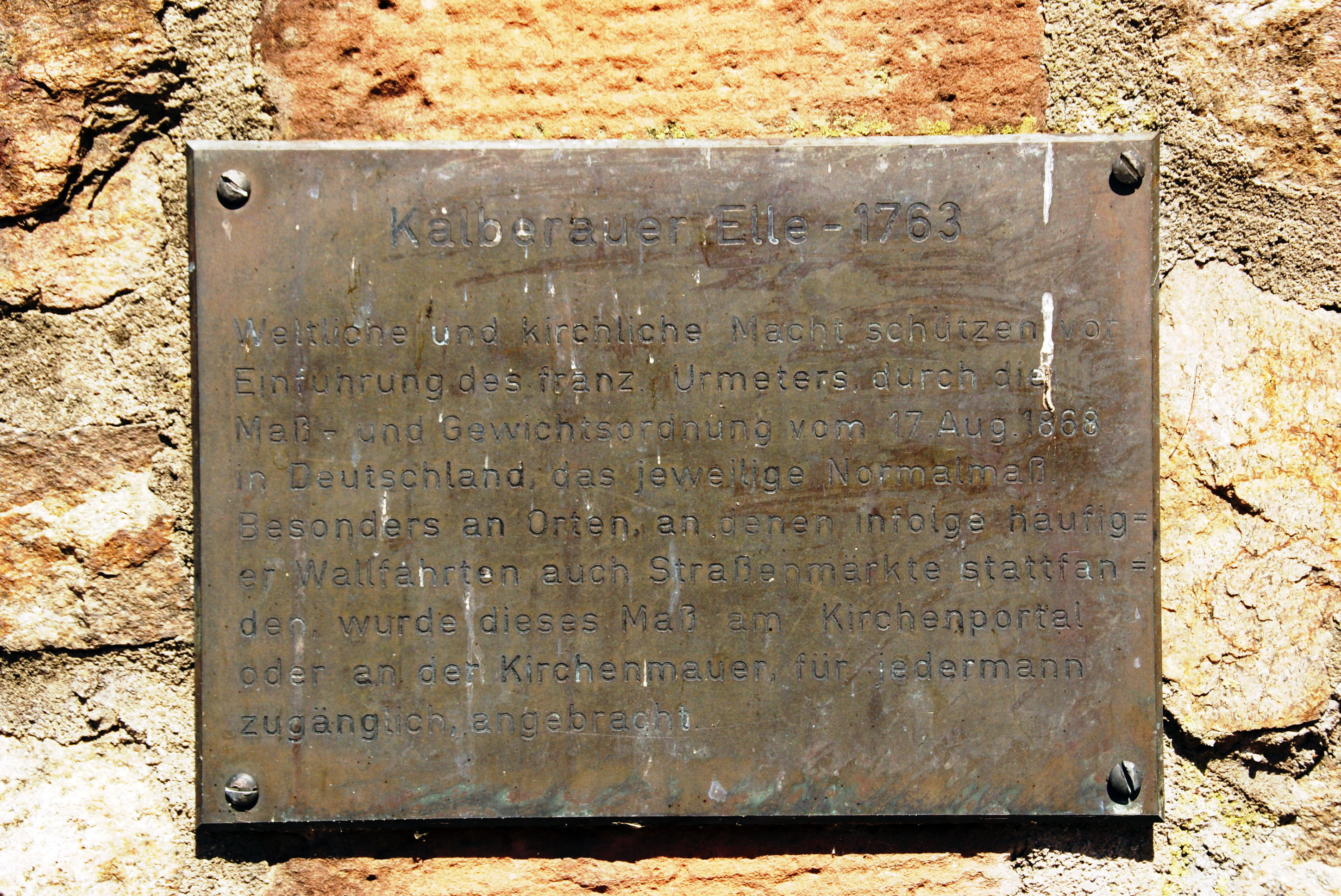 Kälberau, Michelbacher Straße: information plaque at the Kälberauer Elle